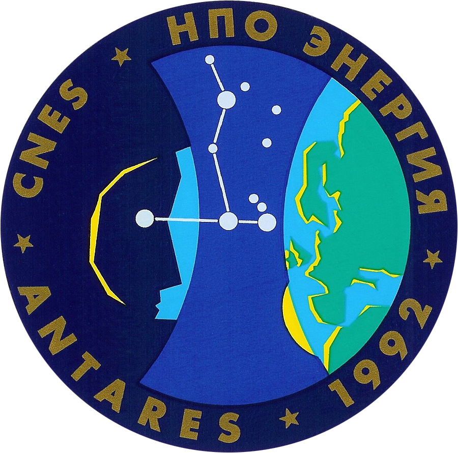 The official crew patch for the Russian Soyuz TM-15 mission, which delivered the EO-12 and Antares crews to the space station Mir.